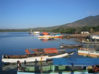 Photo of Baranusa harbor, Indonesia